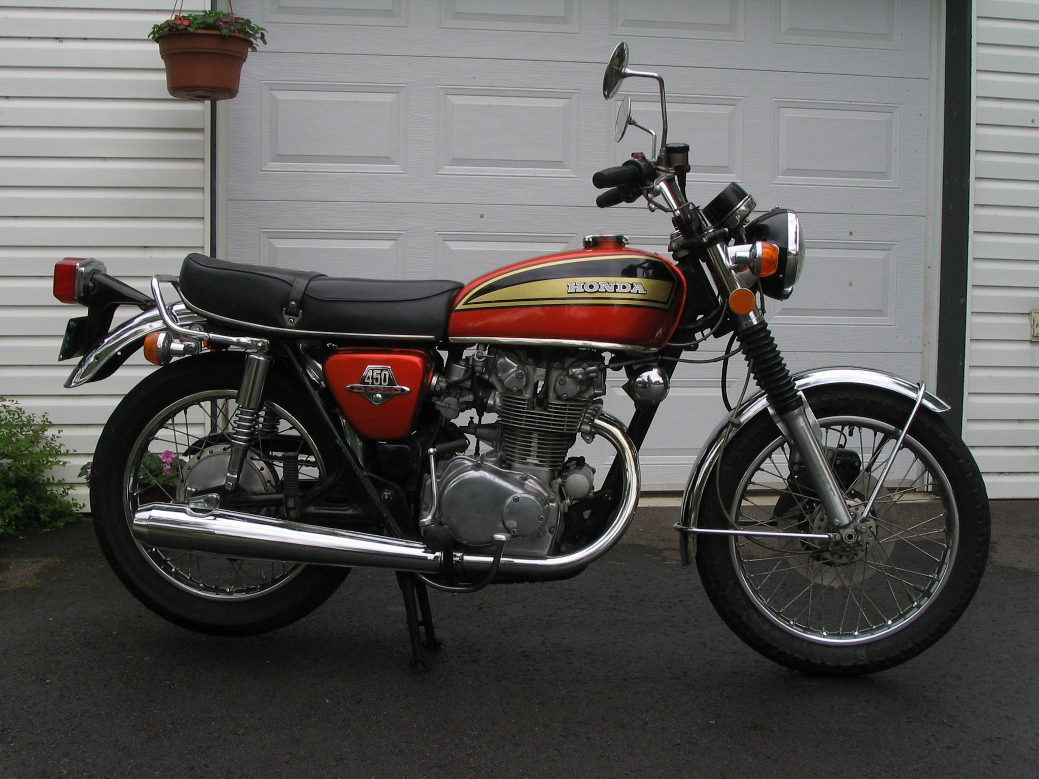 1974 Honda CB450 K7 right side view. The bike is entirely original, not modified nor altered in any way.